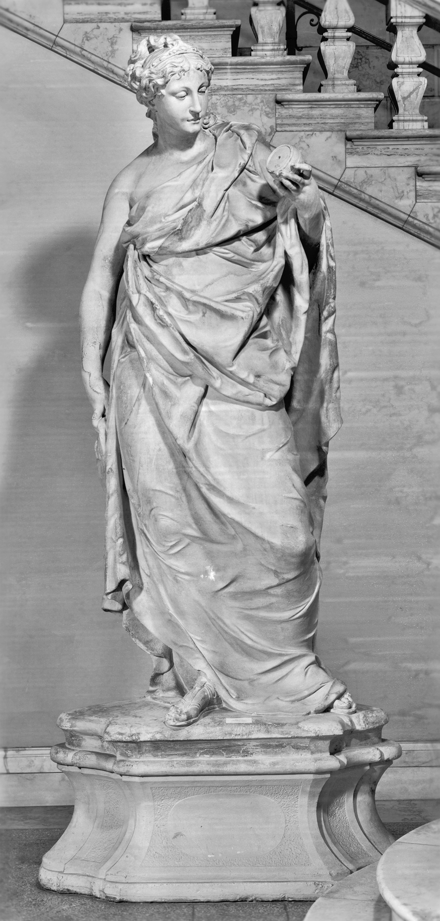 This is one of four large limestone figures that were originally installed as part of a set of 15 in the Palazzo Pisani in Venice, where they were placed in niches above the stairs leading to the library. As they were seen only from the front, their backs were left in a rough state. Gai has represented them as graceful, elongated creatures in greatly animated poses, wearing rich, wavy draperies. The figures are allegories, representing symbolically abstract concepts, or Muses, goddesses of the liberal arts. Their presence in connection with a library would allude to the pursuit of virtue through the study of the sciences and arts. Their individual identities remain uncertain, though some of their attributes correspond to those of figures in the "Iconologia," a widely read emblem book (a book of symbols and their meanings) by Cesare Ripa (Italian, ca. 1560-ca. 1625), first published in 1593. Holding what looks like a sundial (missing its shadow-casting gnomon), this woman is probably Urania, the Muse of astronomy.